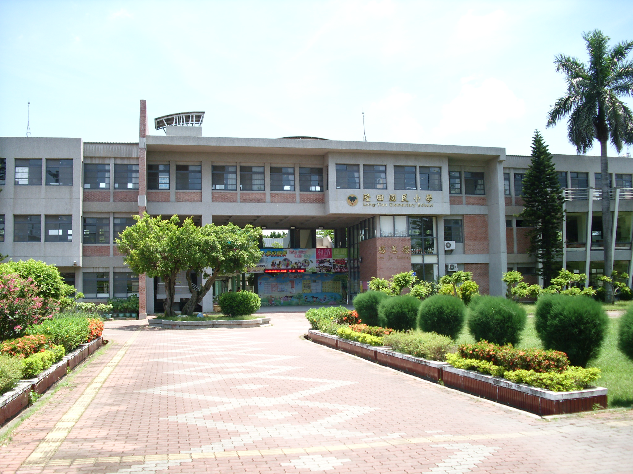 Tainan Municipal Guantian District Longtian Elementary School